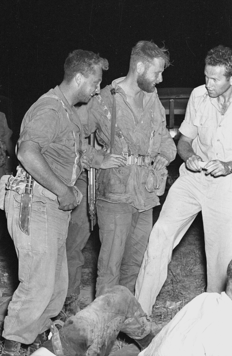 Ariel Sharon (left), overall commander of Operation Olive Leaves, consults with Aharon Davidi (center), commander of the 771 Reserve Paratroop Battalion and Company Commander Yitzchak Ben Menachem (right), who was killed during the assault.